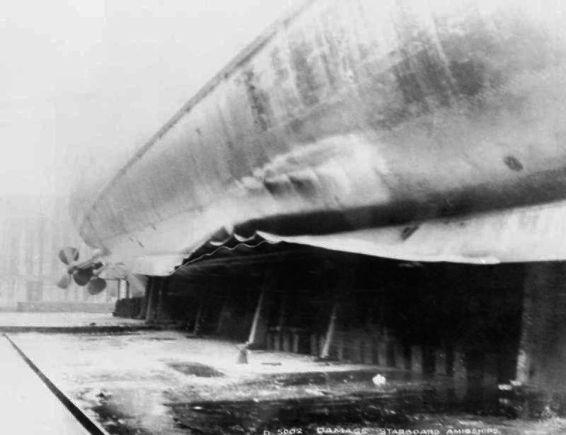 HMS Belfast in dry dock, showing heavy damage from a German magnetic mine. (Original IWM caption: HMS BELFAST in dry dock for repair in 1939 after striking a mine in the Firth of Forth.)